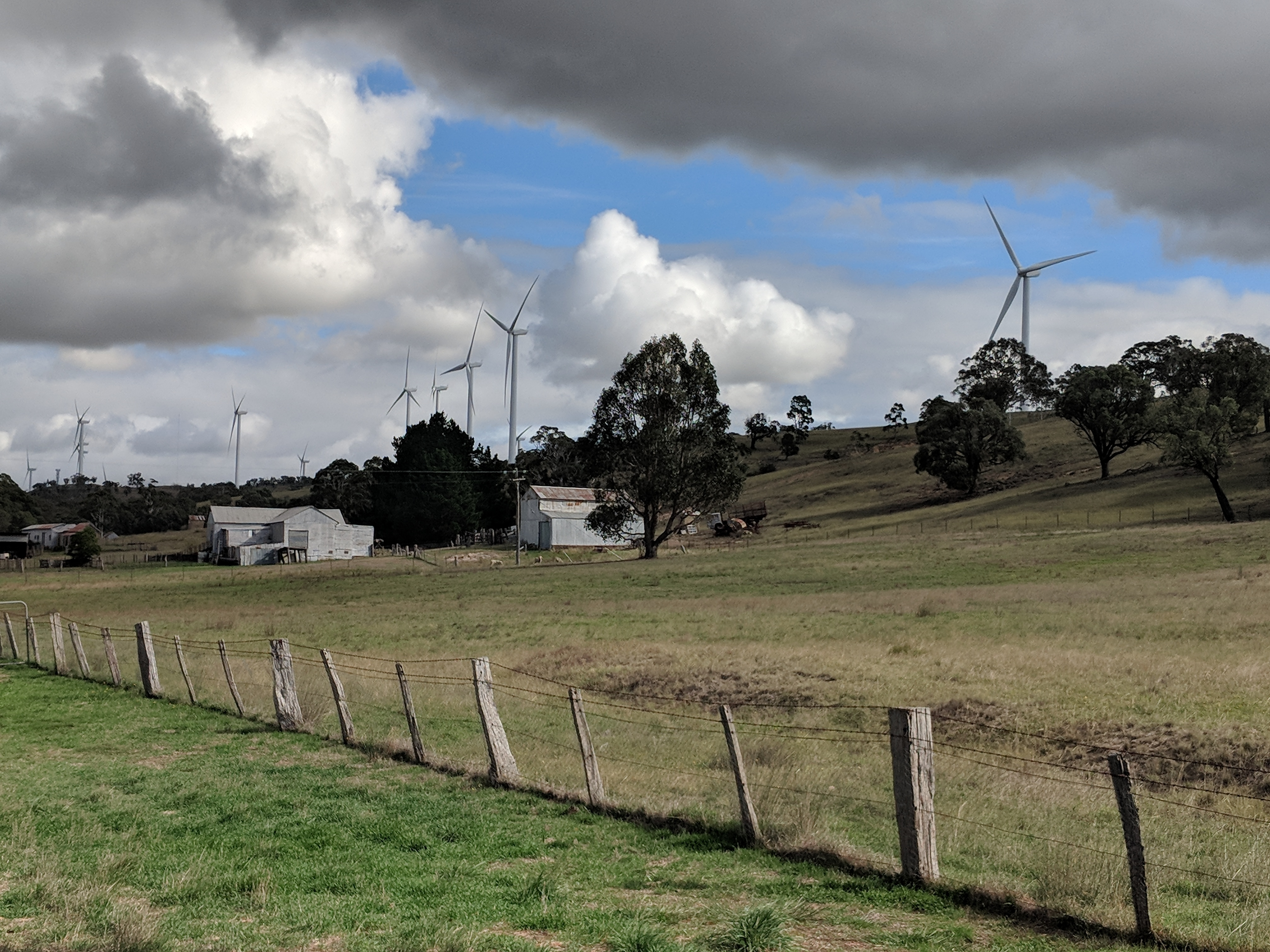 Cullerin Range Wind Farm from Breadalbane near Cullerin